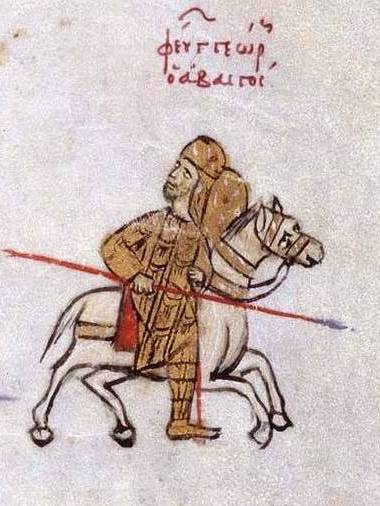 A miniature depicting the defeat of the Georgian king George I ("Georgios of Abasgia") by the Byzantine emperor Basil. Skylitzes Matritensis, fol. 195v. George is shown as fleeing on horseback on the right and Basil holding a shield and lance on the left.